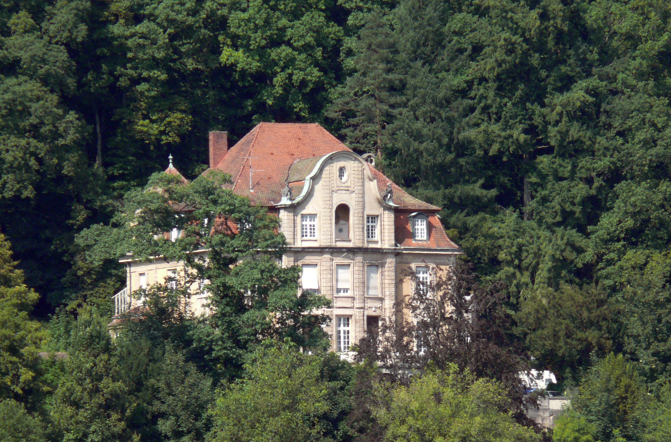 View of the Villa Franck in Murrhardt (Baden-Württemberg, Germany), seen from the hill of the Walterichskirche, i.e. from SSW. The villa was built in 1904 to 1907 by architects Paul Schmohl and Georg Staehelin.